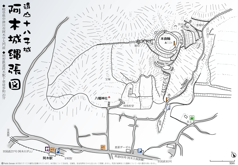 Topological map of Agi castle (Agi Nakatsugawa, Gifu, Japan)